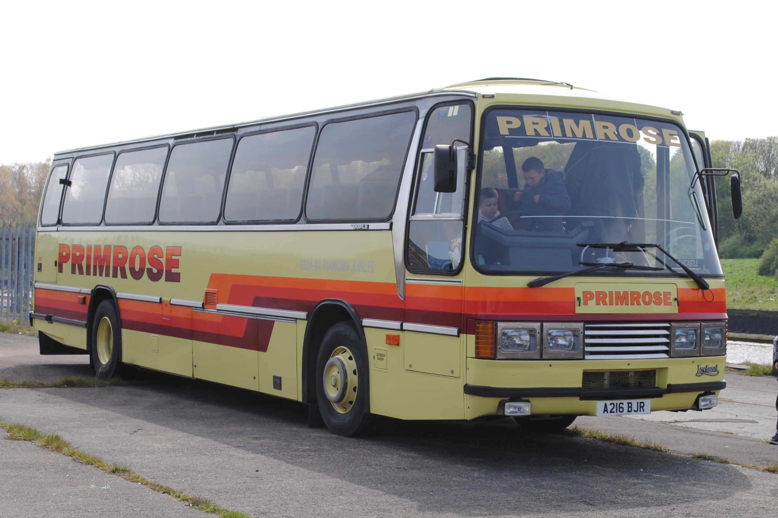 A216 BJR Leyland Tiger 245 Duple Laser. Seen on the Quayside at Newcastle-upon-Tyne attending the North East bus and coach show.